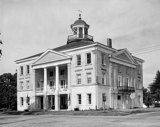 Jansonist Colony, Steeple Building, Main & Bishop Hill Streets, Bishop Hill (Henry County, Illinois) (cropped)